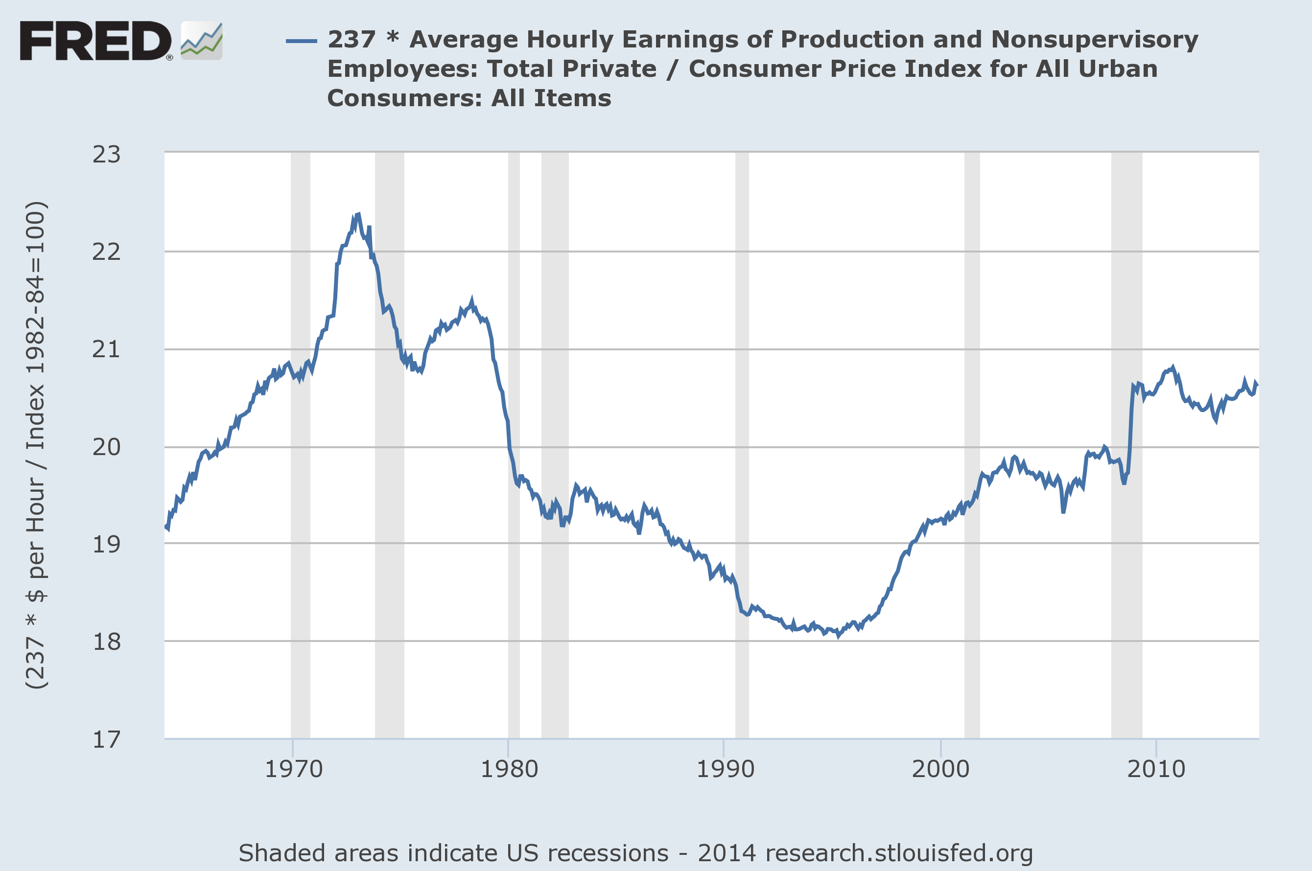 U.S. Hourly Wages - Real or Adjusted for Inflation 1964-2014